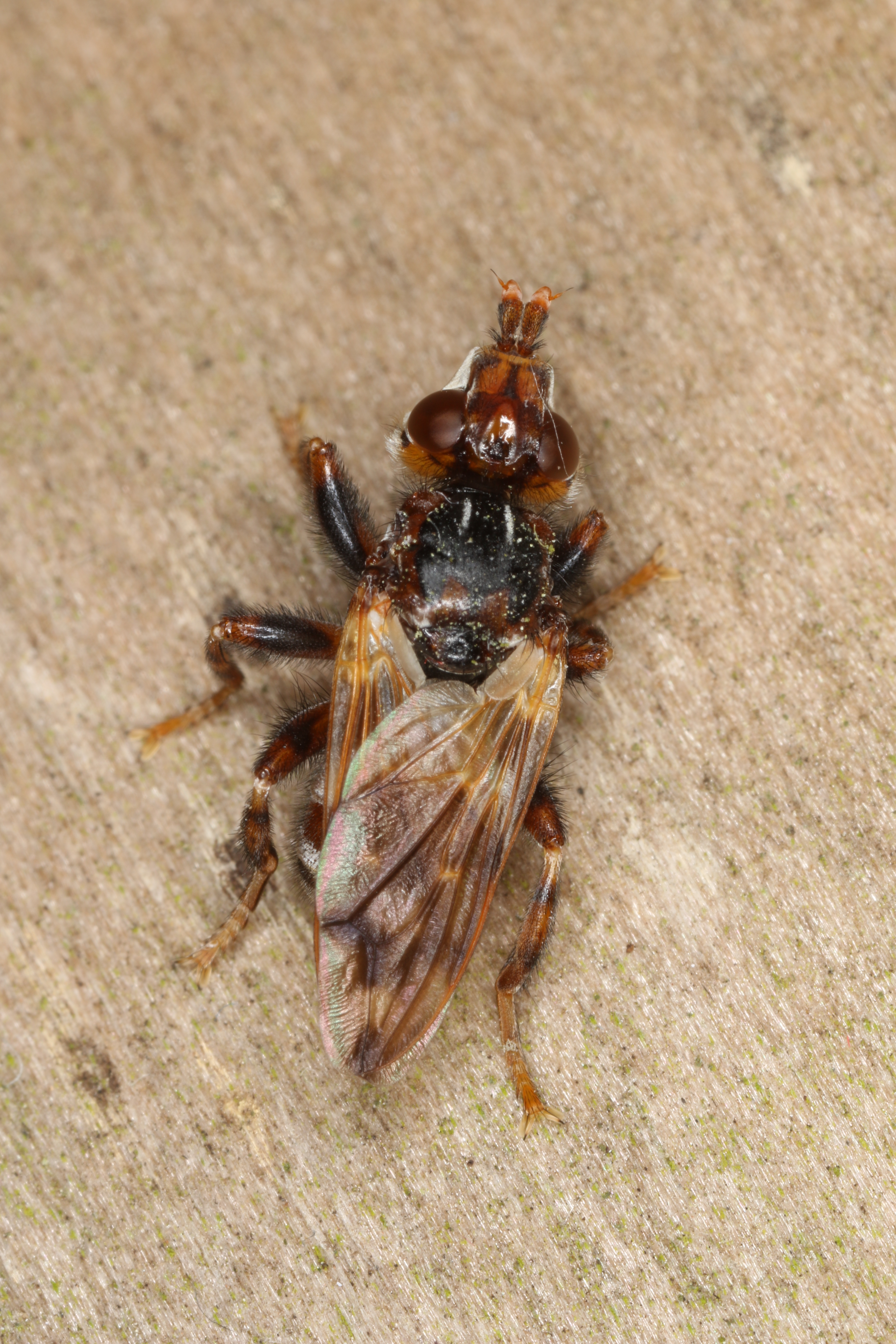 Myopa buccata (Linnaeus, 1758), Søborg, Denmark, 31 May 2016